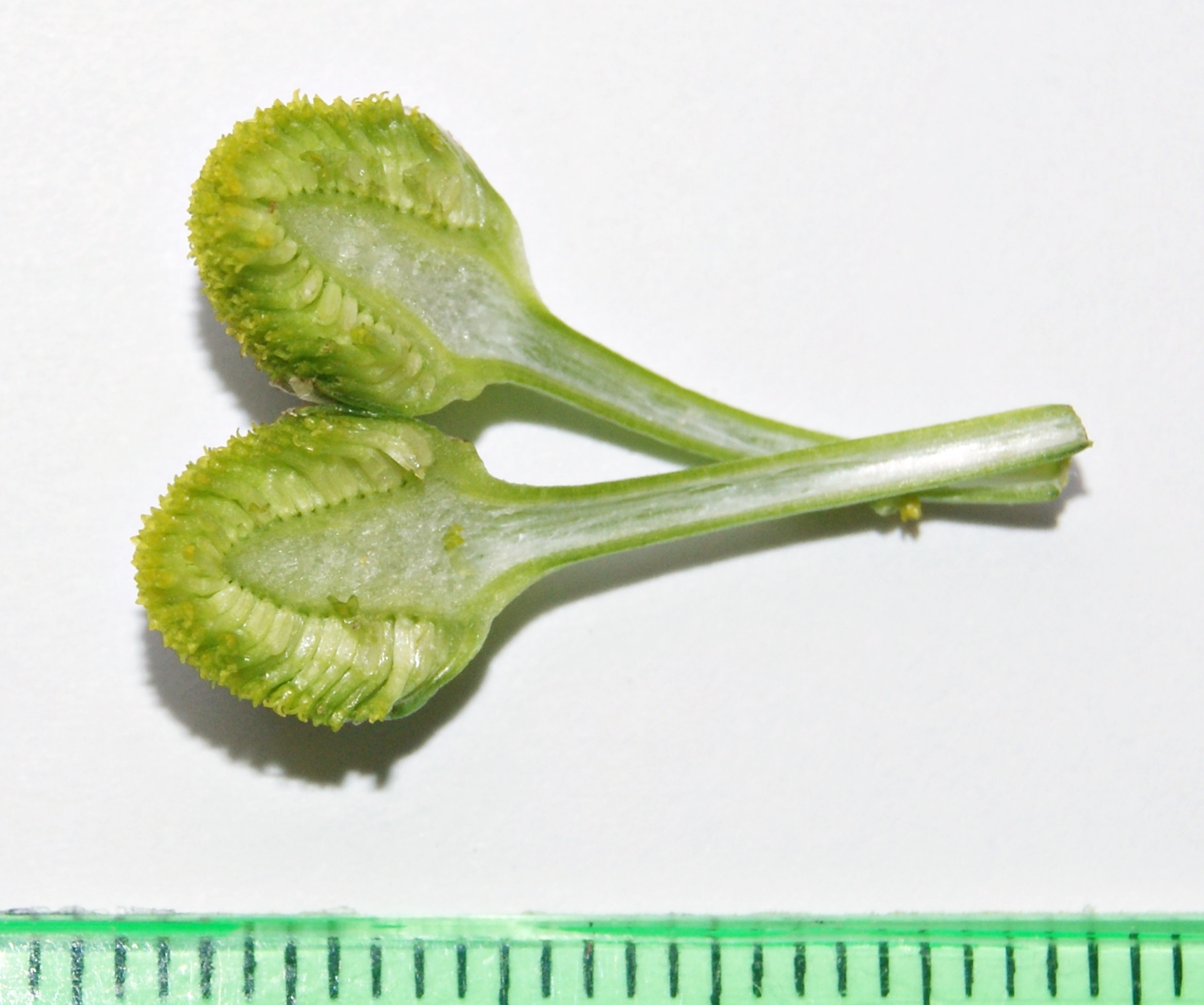 Matricaria discoidea, Germany.